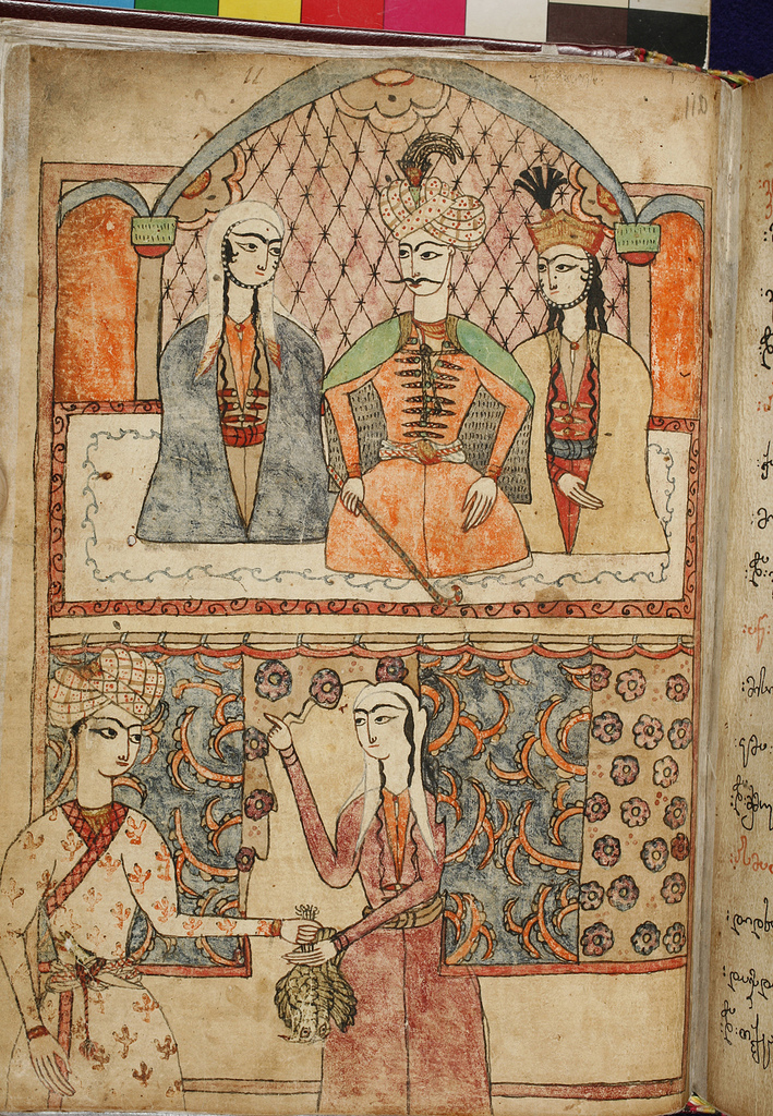 A miniature by Mamuka Tavakalashvili from the manuscript of Shota Rustaveli's "Knight in the Panther's Skin". H599. 110v. National Center of Manuscripts, Tbilisi, Georgia